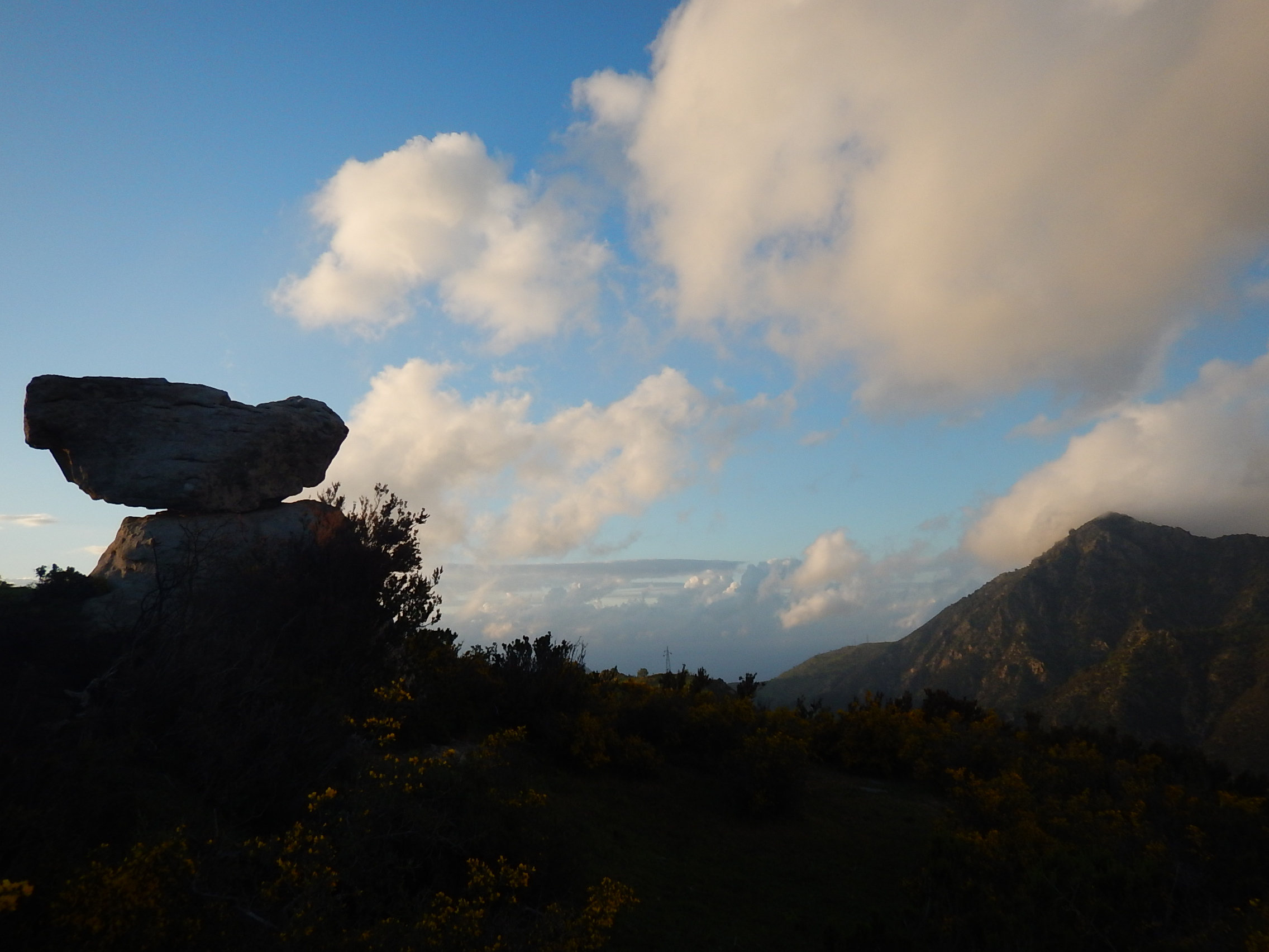 the Rocca Nkravaccada is at Novara di Sicilia on a hill of the Peloritani mountains.